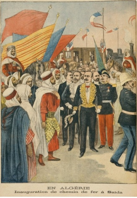 Opening of the Saida railway in Algeria, illustration from 'Le Petit Journal', 18 February 1900 (colour litho). Edouard Laferriere, Governor of French Algeria, presiding at the opening ceremony for the railway from Saida to Djeniene Bourezg